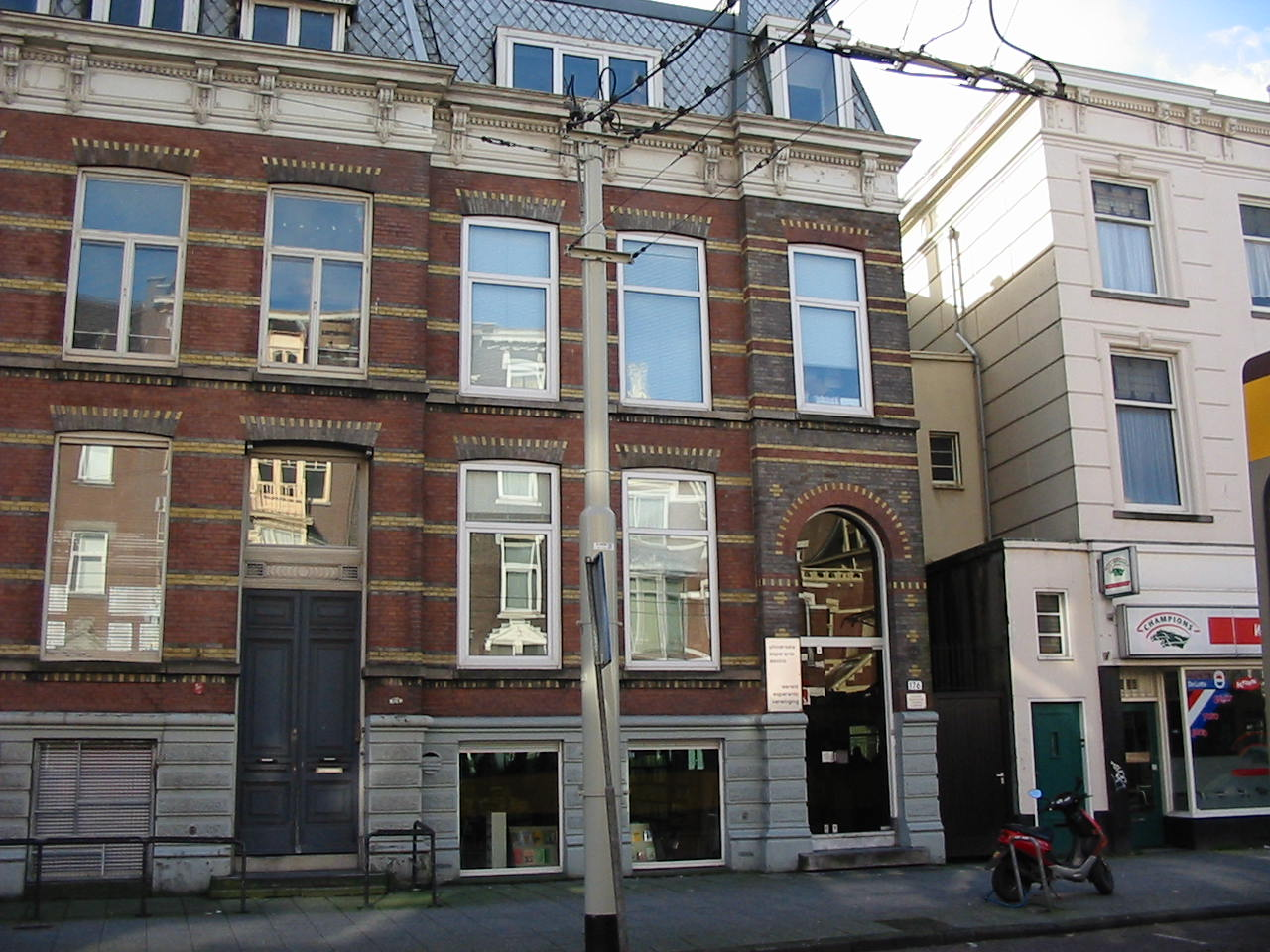 The Central Office of the Universal Esperanto Association in Rotterdam.